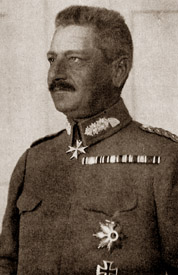 Portrait in in the First World War